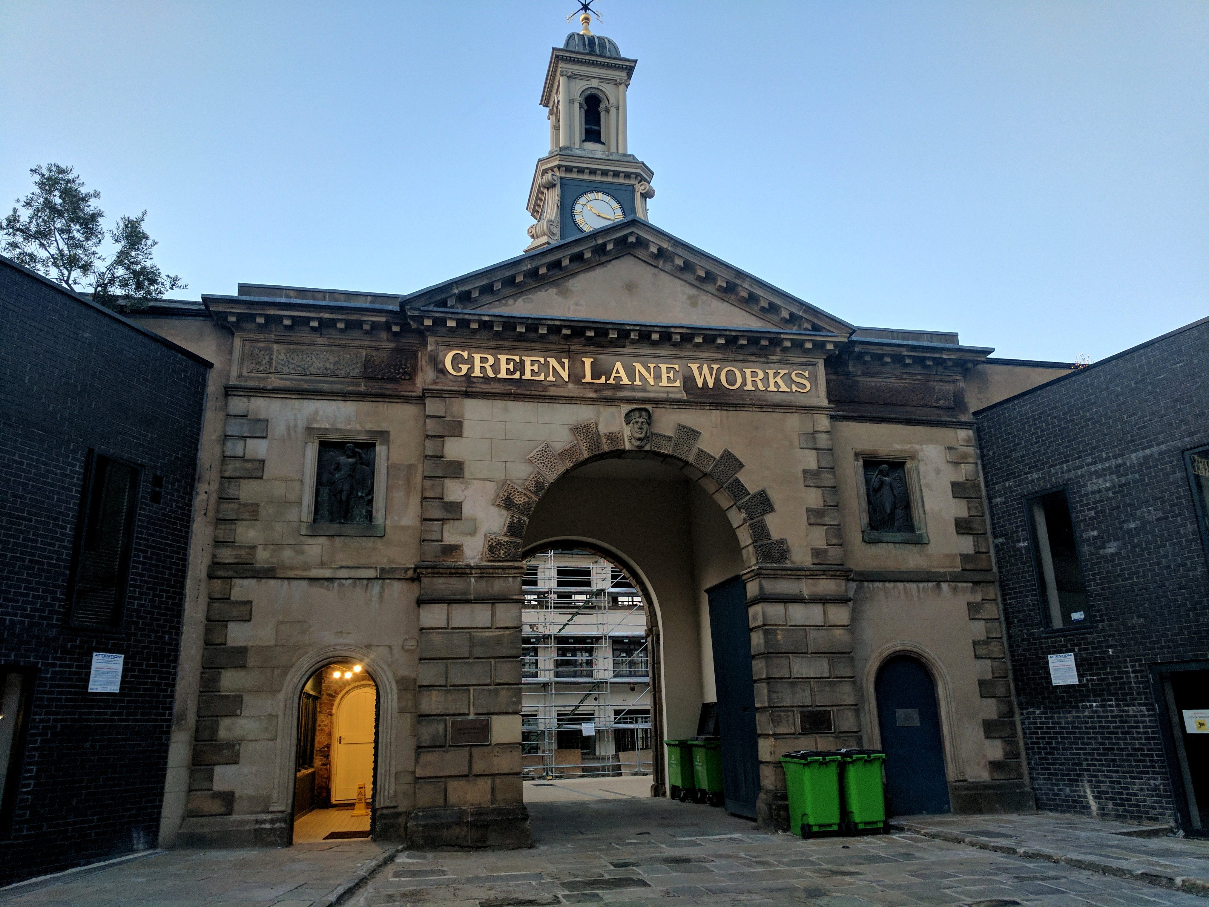 Entrance Gateway to Green Lane Works, Kelham Island, Sheffield Wikidata has entry Q5602776 with data related to this item.